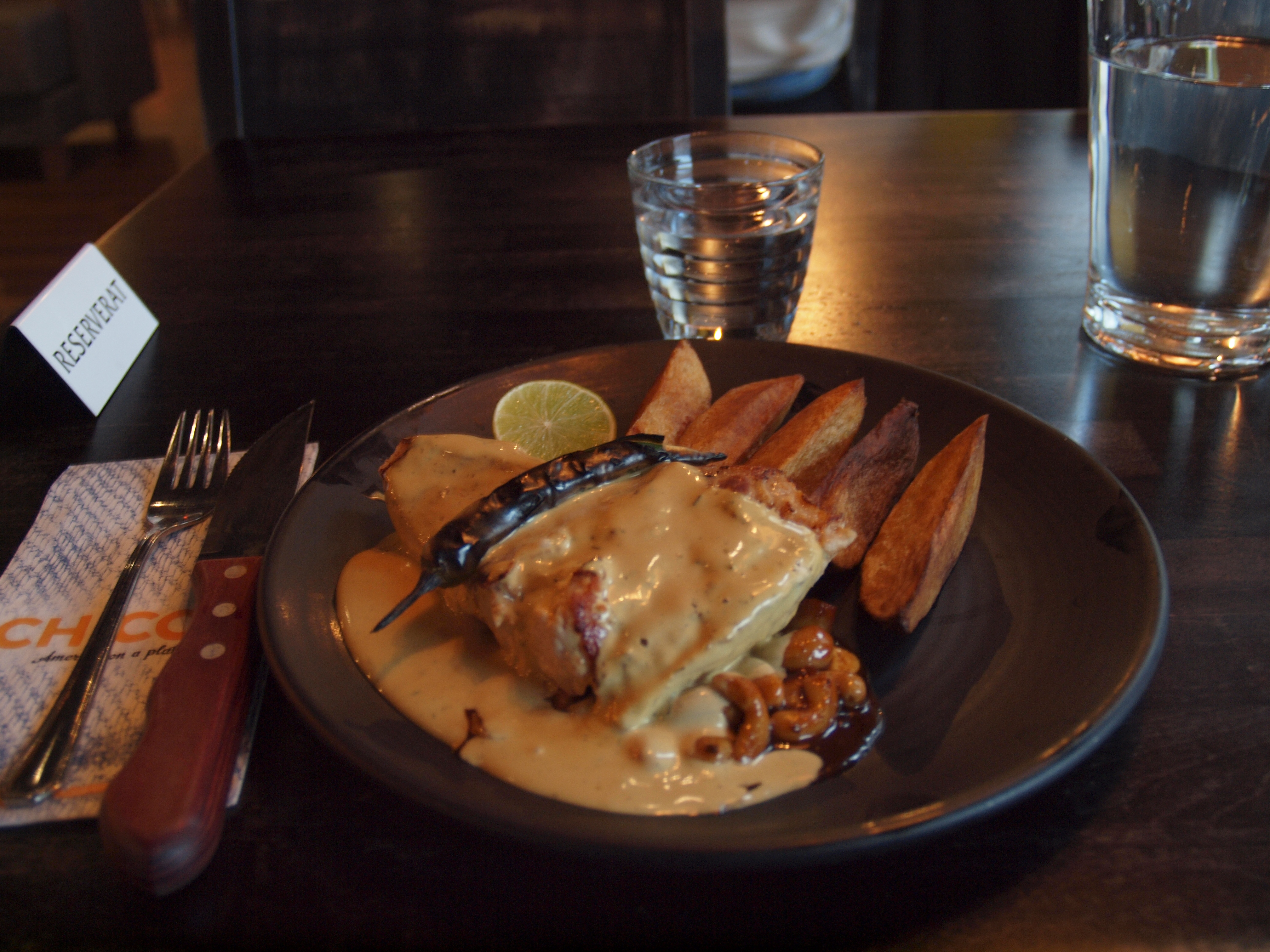 A plate of crocodile meat in teriyaki sauce, at restaurant Chico's in Helsinki, Finland.